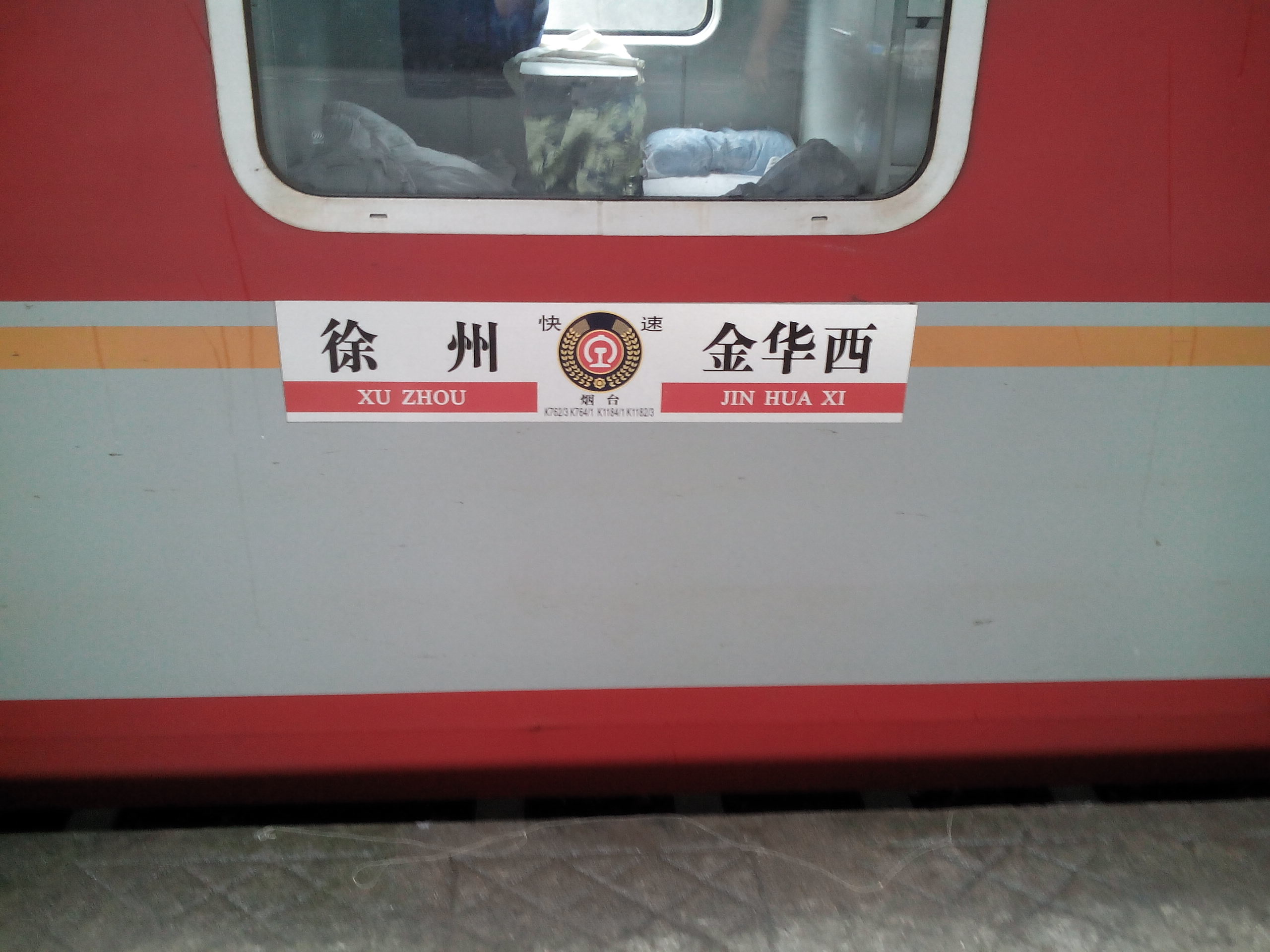 When there is Jinhuaxi and the route seems like Xuzhou-Jinhua...